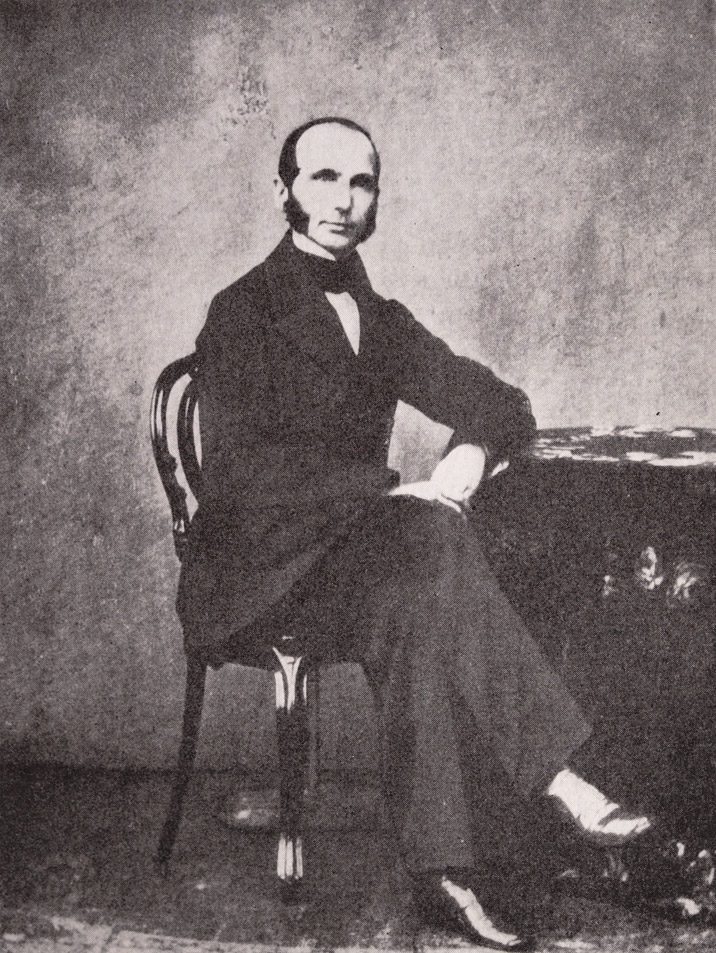 Finnish Freiherr, Geheimrat and Senator Clas Herman Molander (1817–1897).